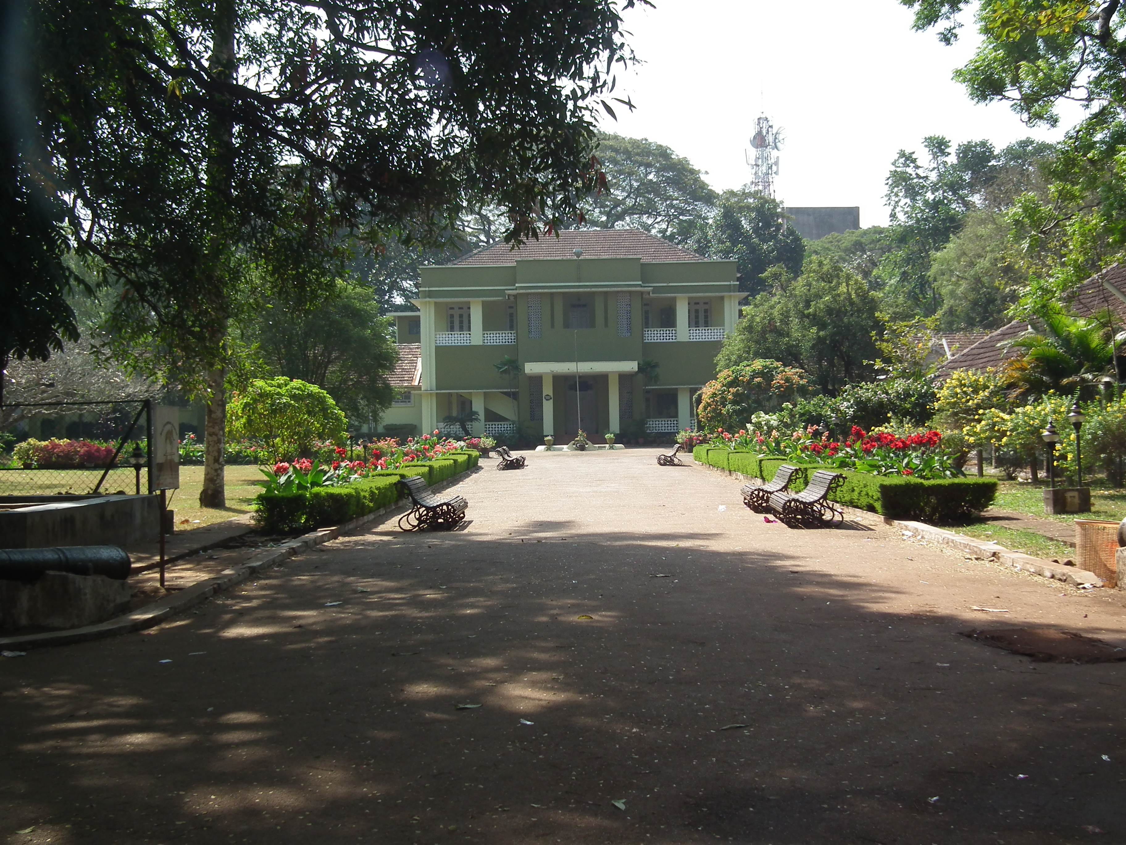 Snap from Thrissur State Museum and zoo.